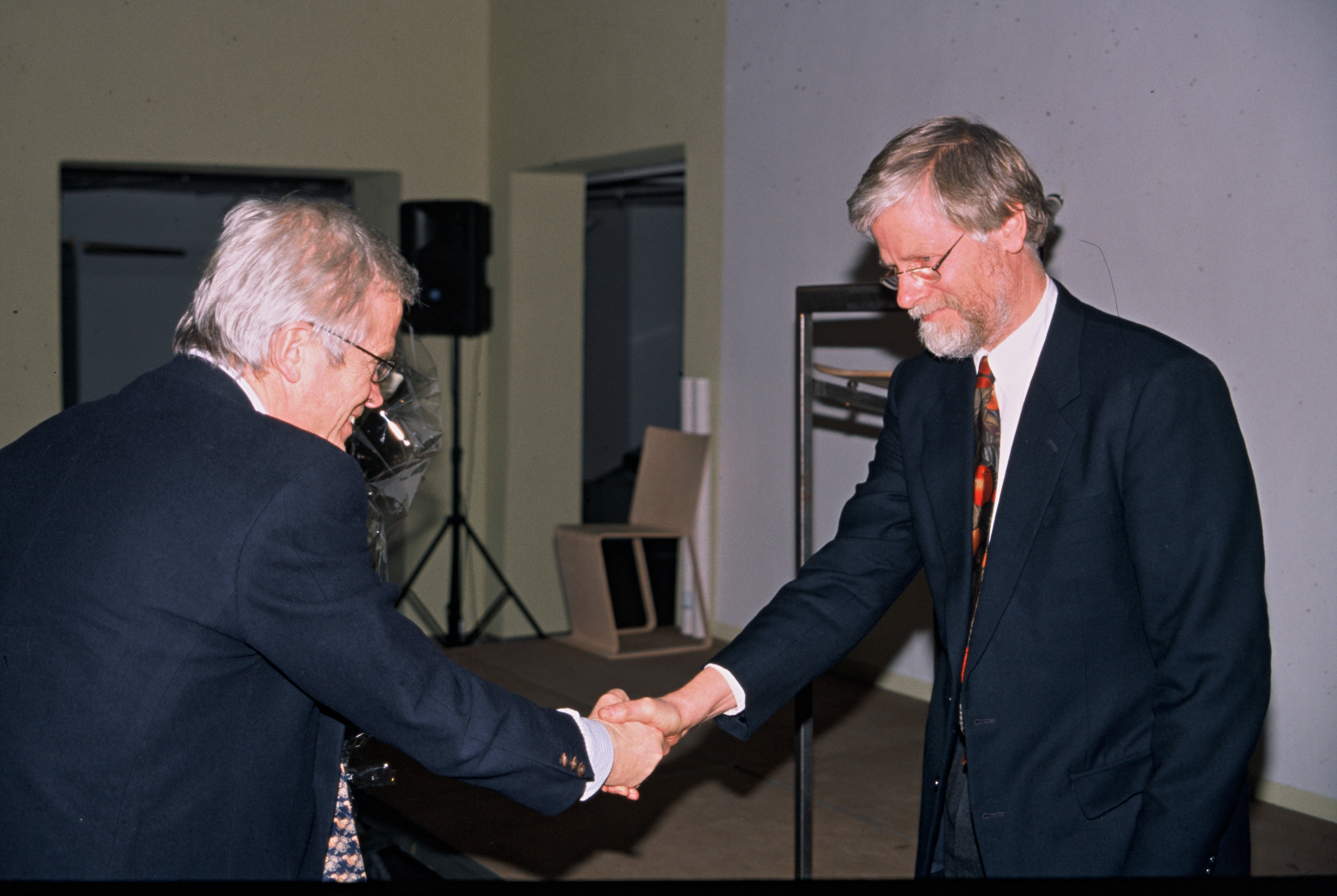 Norwegian architect Niels Torp receiving the Jacobprisen award for 1999 from Peter Butenschøn, director of Norsk Form